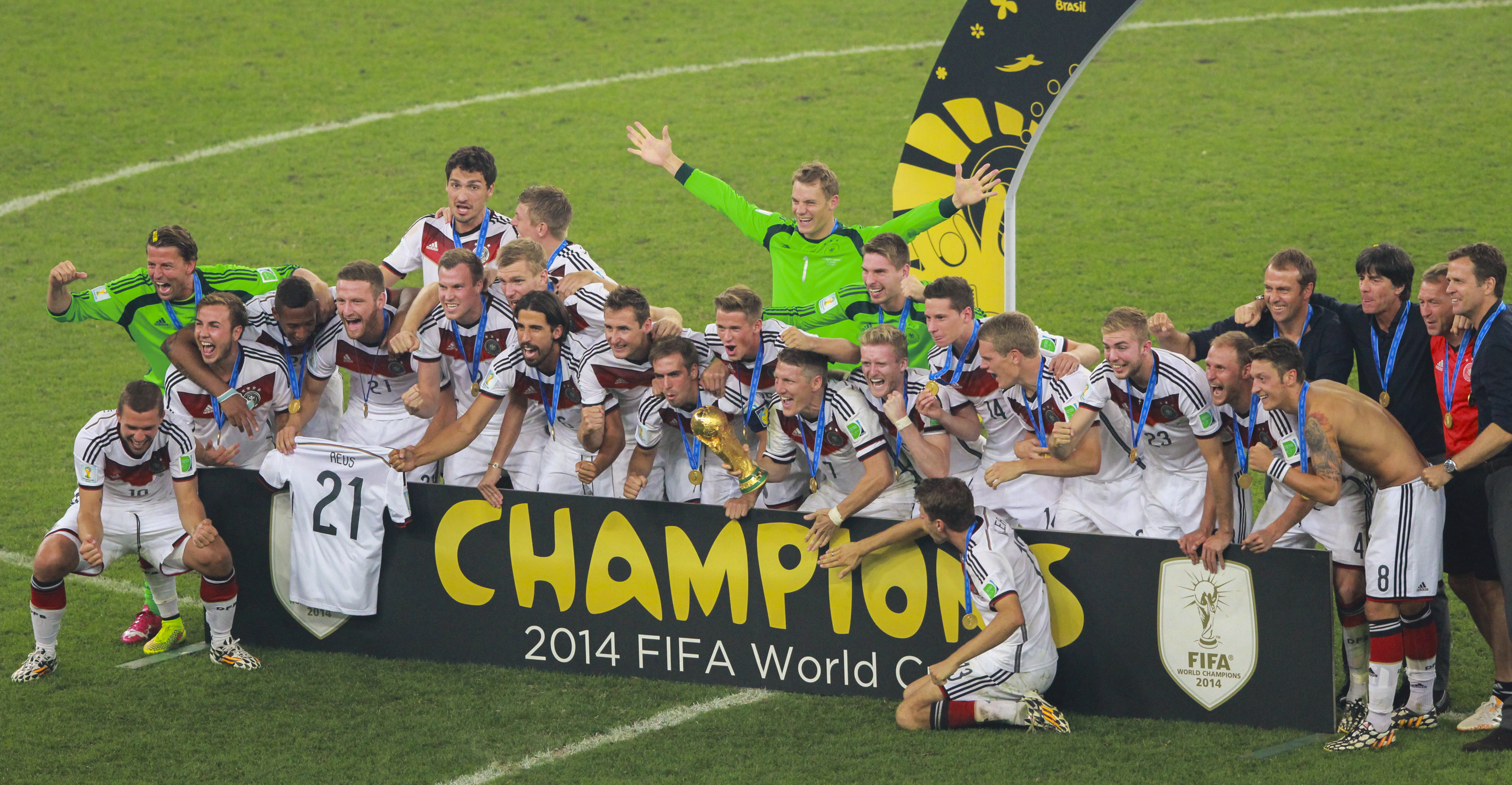 Germany, winner of the 2014 FIFA World Cup.